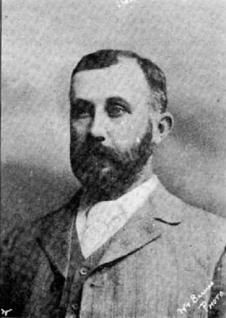 Charles Lewis represented two electorates in the New Zealand House of Representatives.